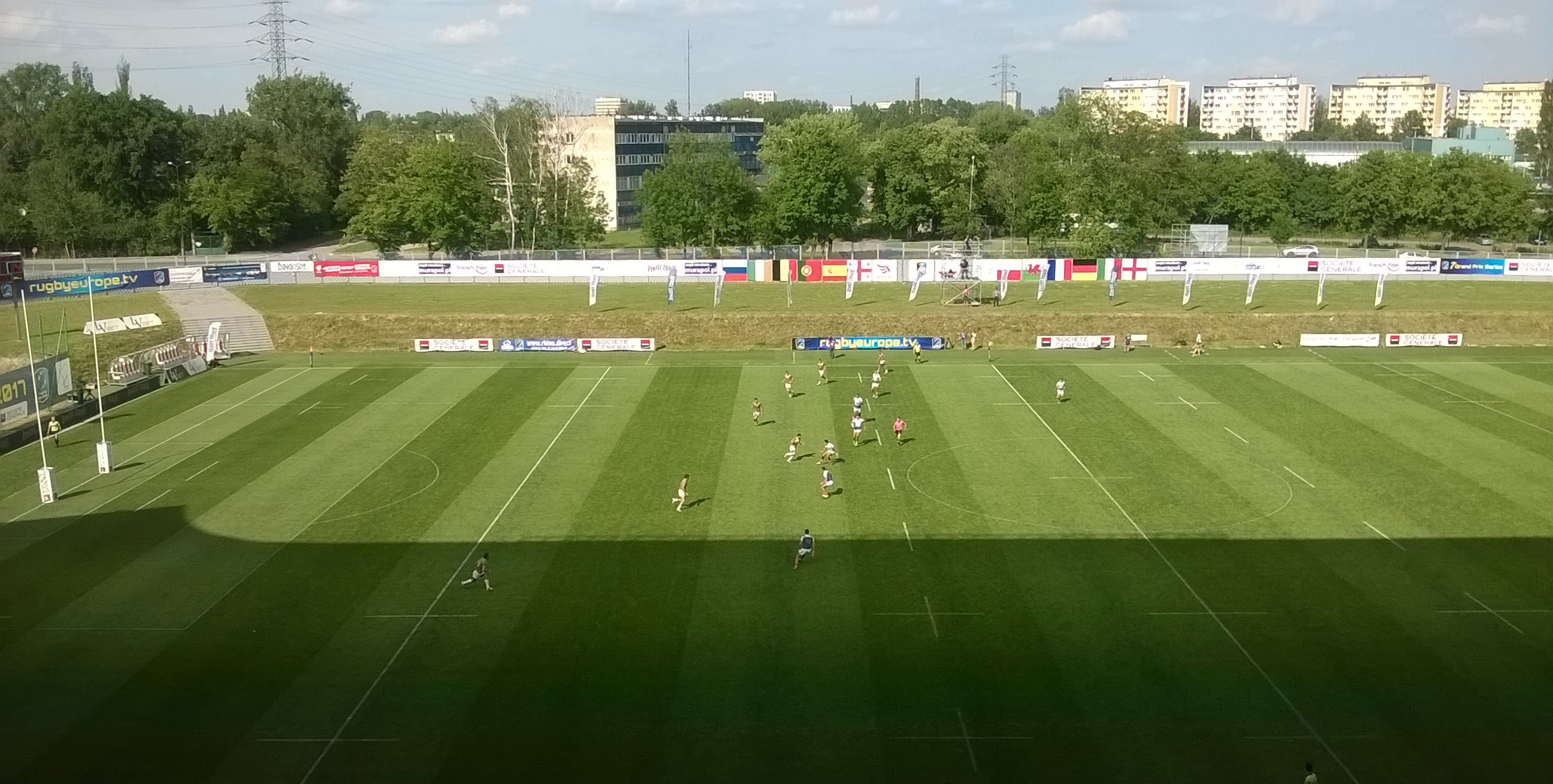 Rugby 7 European Championships Grand Prix Series 2017, Lodz, France-Georgia, 7th place match. LKS Lodz stadium. France in blue and white, Georgia in gold.